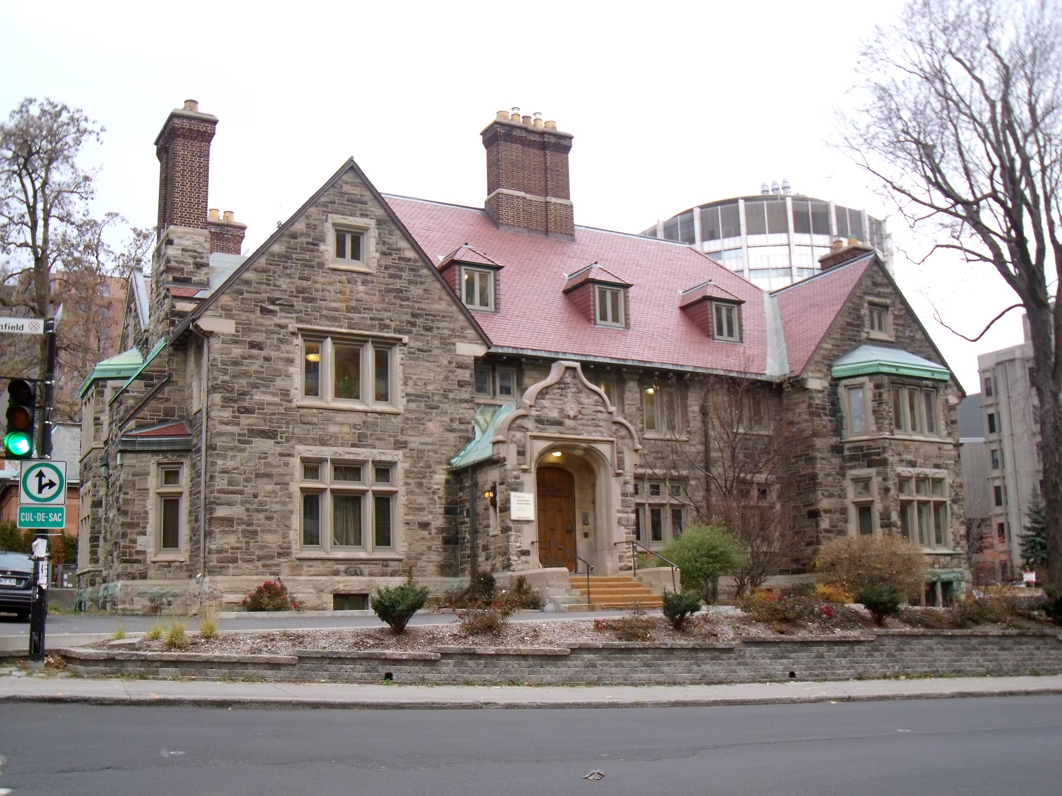 Alice Graham House (1925), 3605 De la Montagne Street, Montreal, Quebec, Canada.